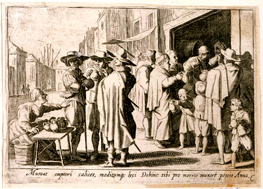 Merchant of wine Cornelius de Wael (1592-1662)